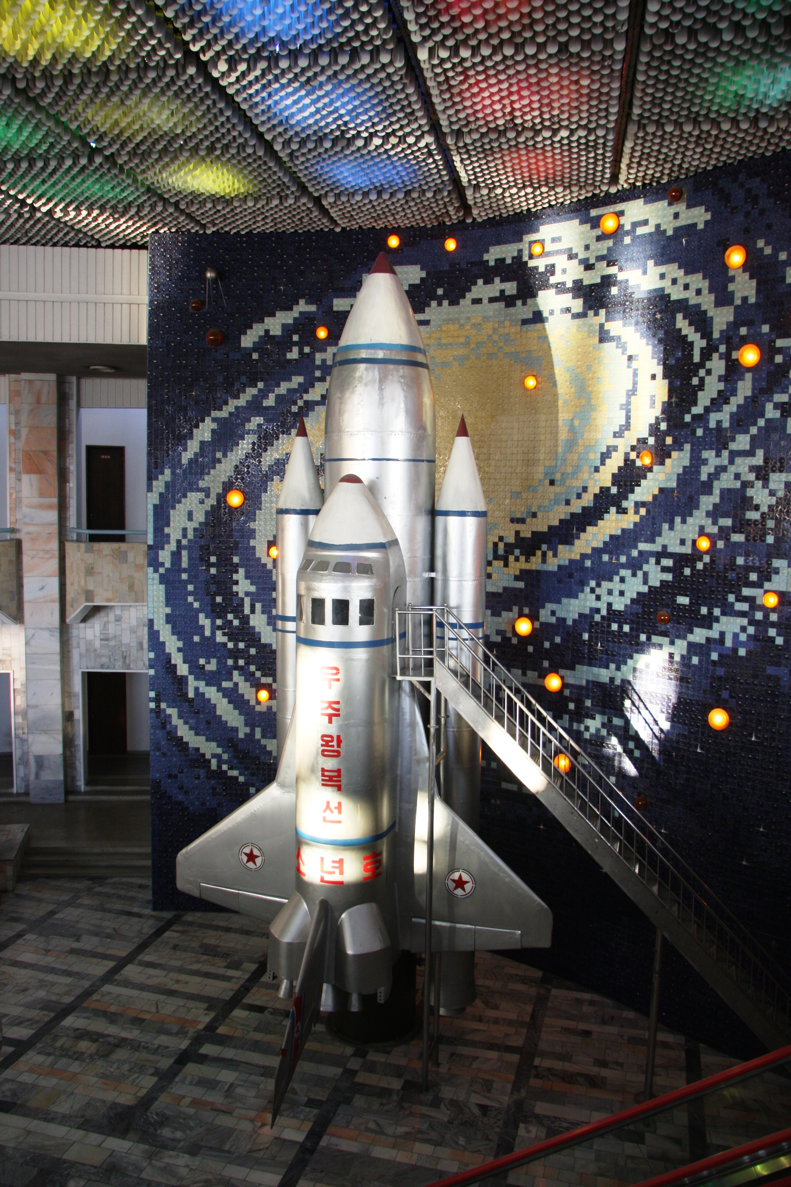 A mock up of a Space-Shuttle-like space transportation system in North Korea.